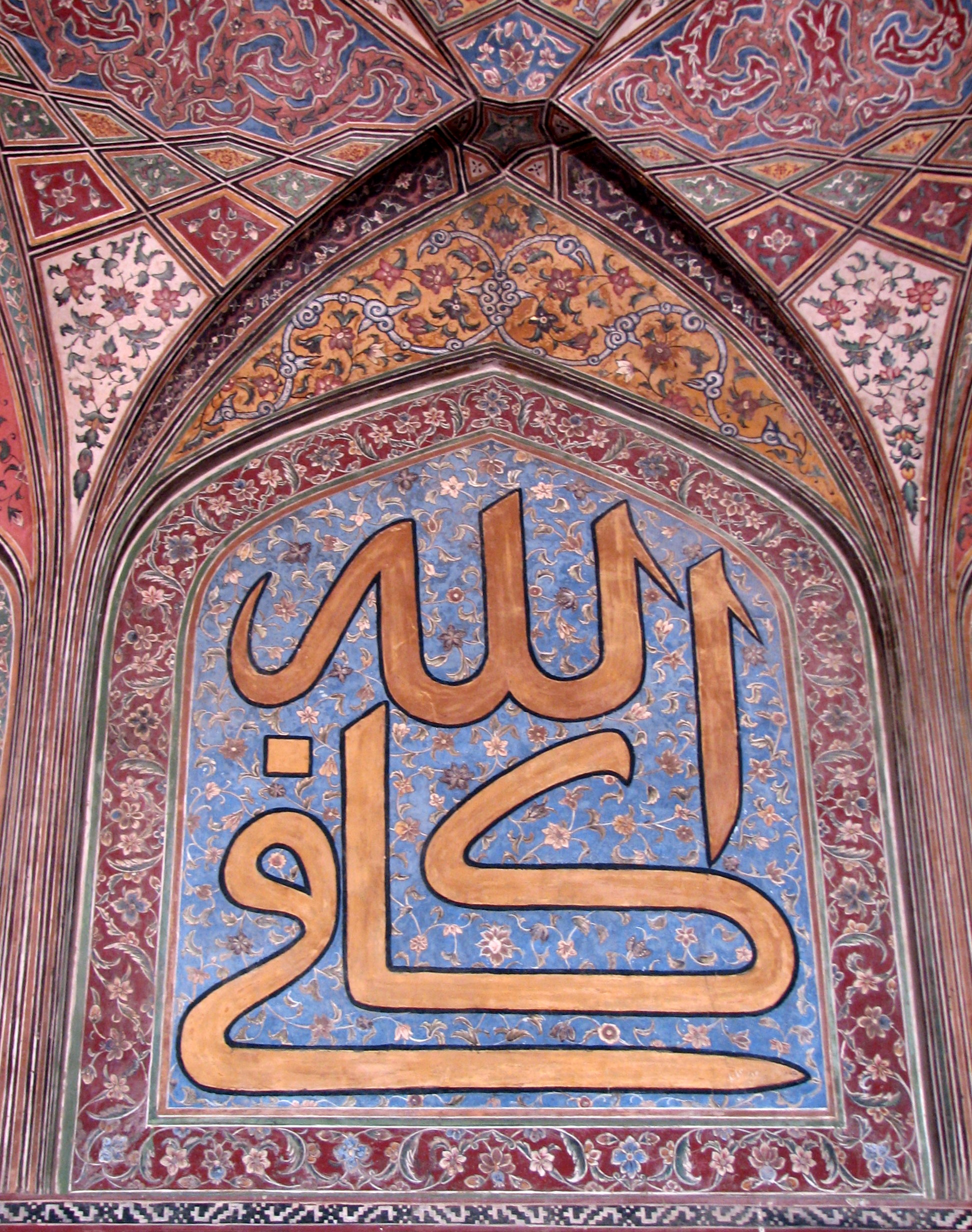 The Wazir Khan Mosque in Lahore, Pakistan, is famous for its extensive faience tile work, with Arabic calligraphy here. It was built in seven years, starting around 1634-1635 A.D., during the reign of the Mughal Emperor Shah Jehan. It was built by Shaikh Ilam-ud-din Ansari, a native of Chiniot, who rose to be the court physician to Shah Jahan and later, the Governor of Lahore. He was commonly known as Wazir Khan. (The word wazir means 'minister' in Urdu language.) The mosque is located inside the Inner City and is easiest accessed from Delhi Gate. ( Translation: "God is enough."